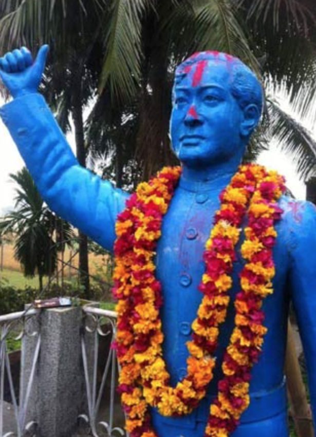 Statue of Ram Prasad Rai(Revolutionary fighter involved in Revolution of 1951 through Nepali Congress Mukti Sena) in Biratnagar